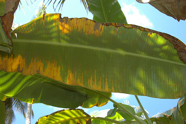 Banana leaves damaged by Raoiella indica - red palm mite